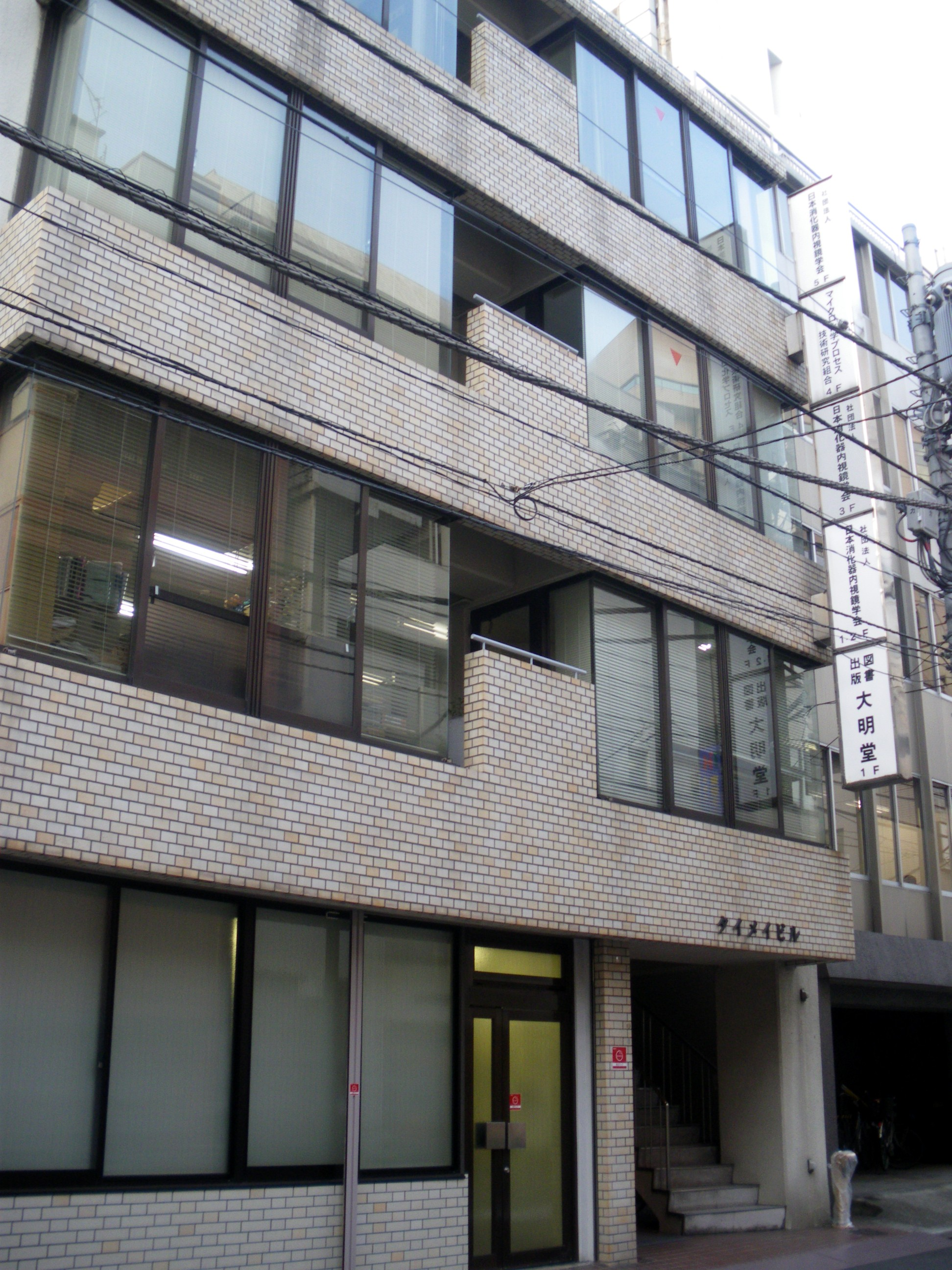 Taimeido (Kandaogawamachi,Chiyoda,Tokyo)